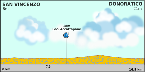 Tirreno Adreatico 2012 stage 1